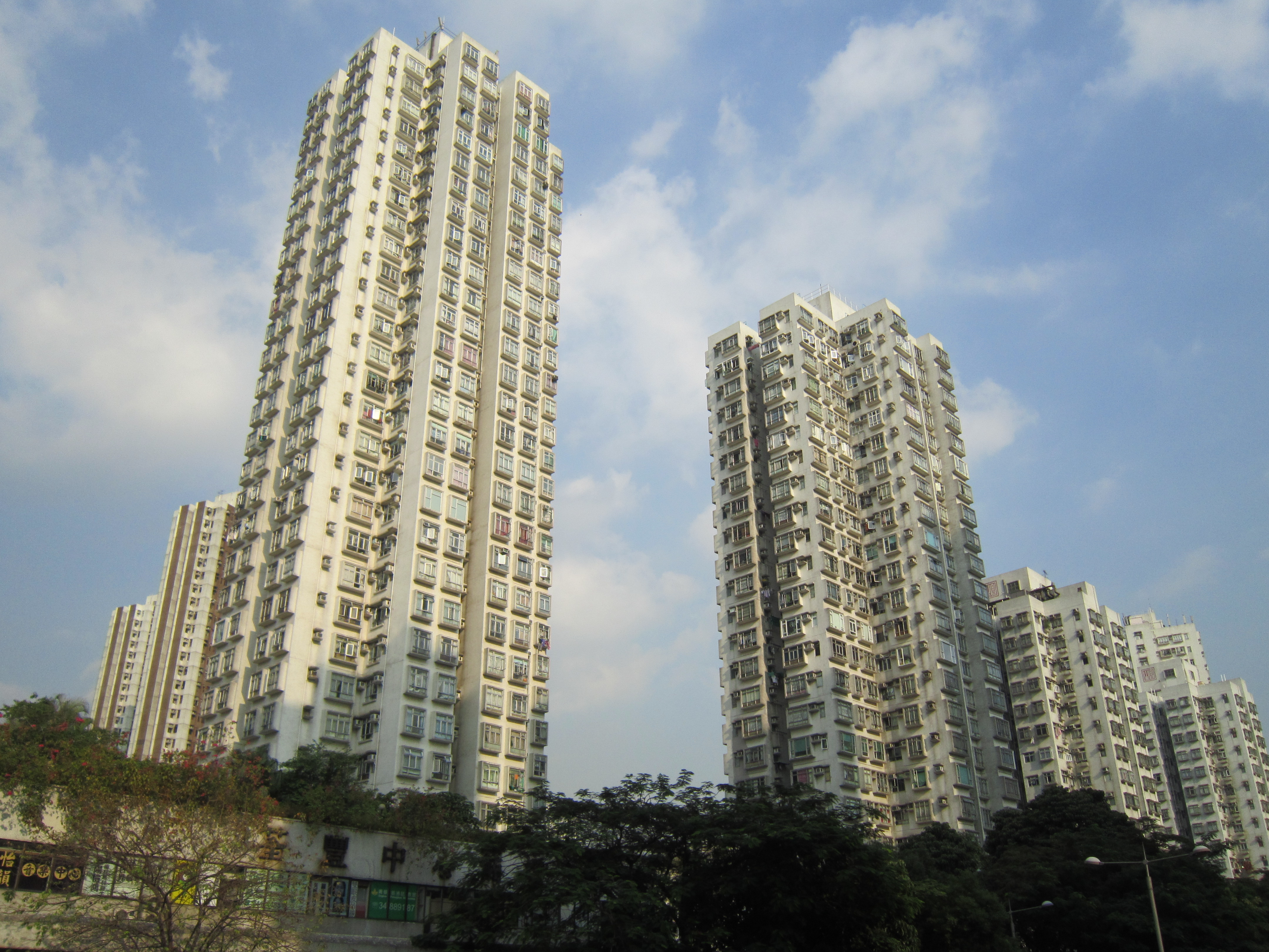 Tsuen Fung Centre Residential Buildings